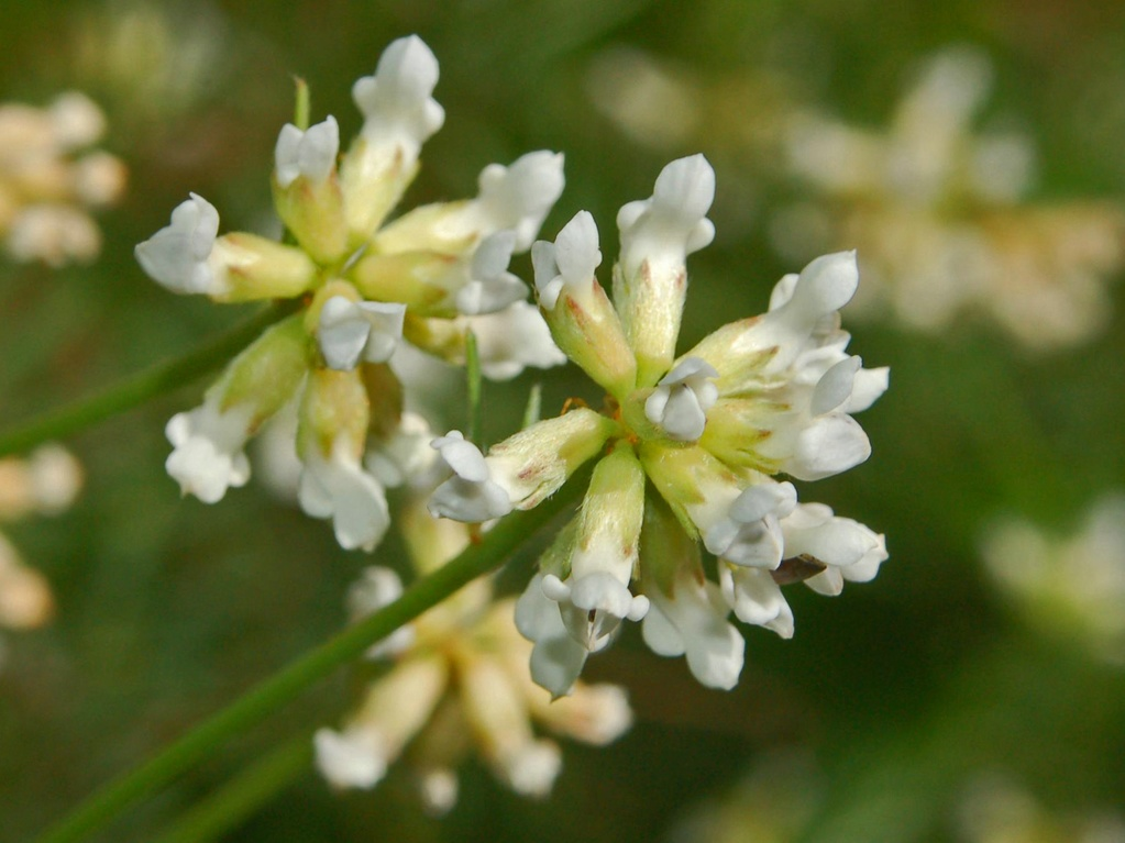 Dorycnium pentaphyllum Genova, Italy